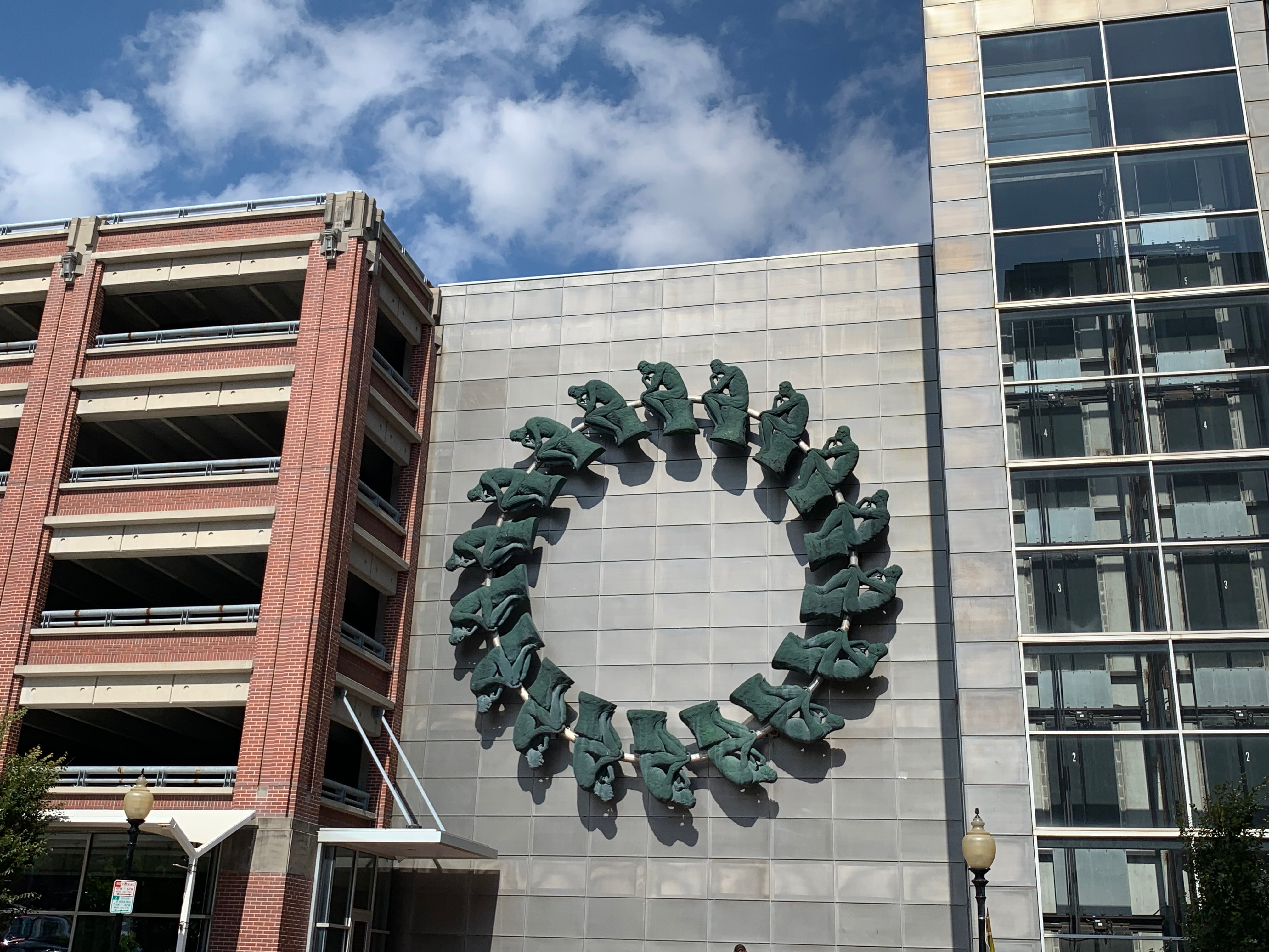 This piece is located at 9th and Wyandotte in Kansas City, MO